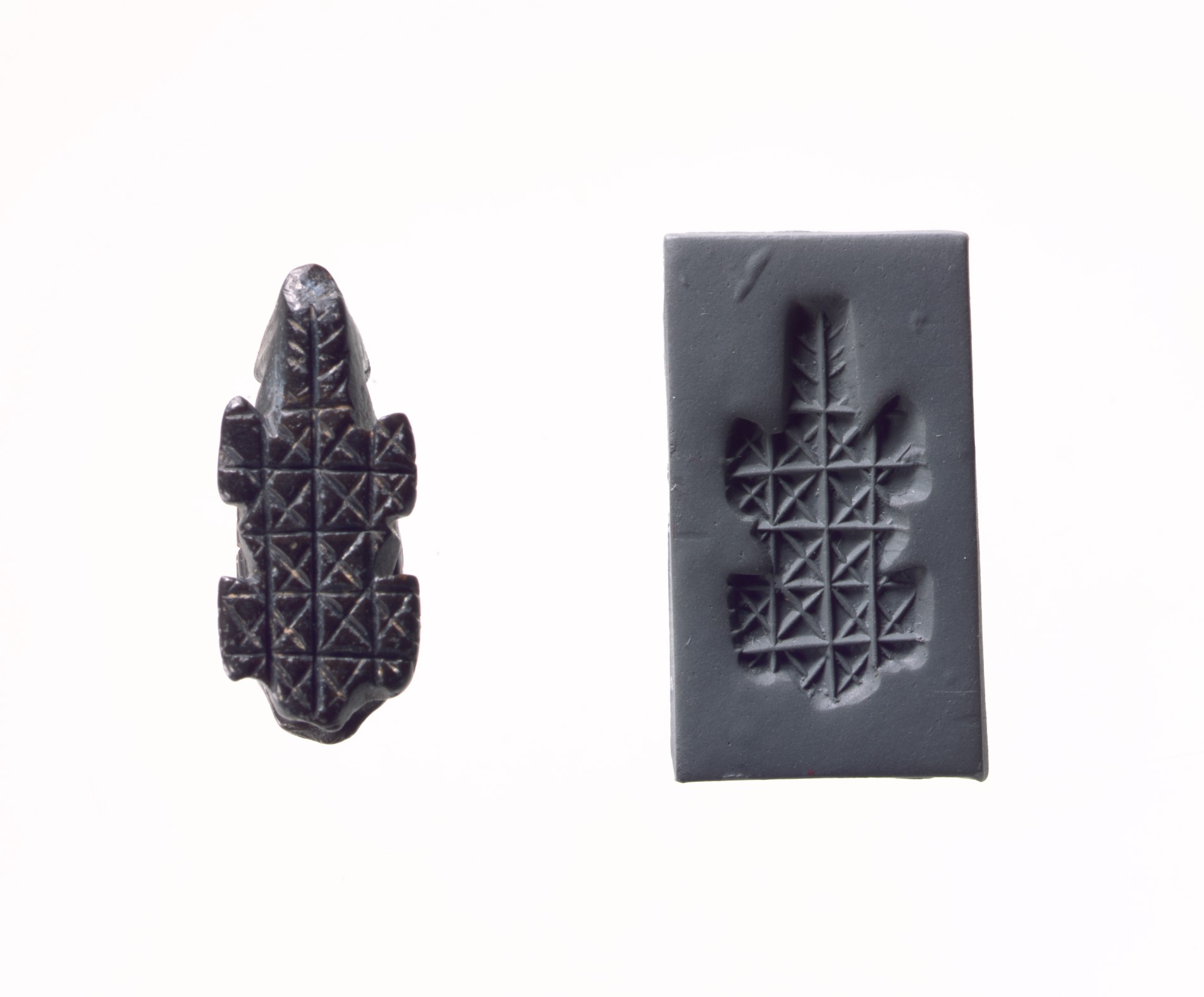 Halaf; Stamp seal; Stone-Stamp Seals